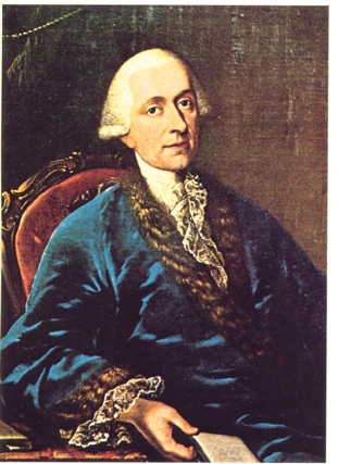 Count Franz Ludwig Schenk von Castell (1736-1821)